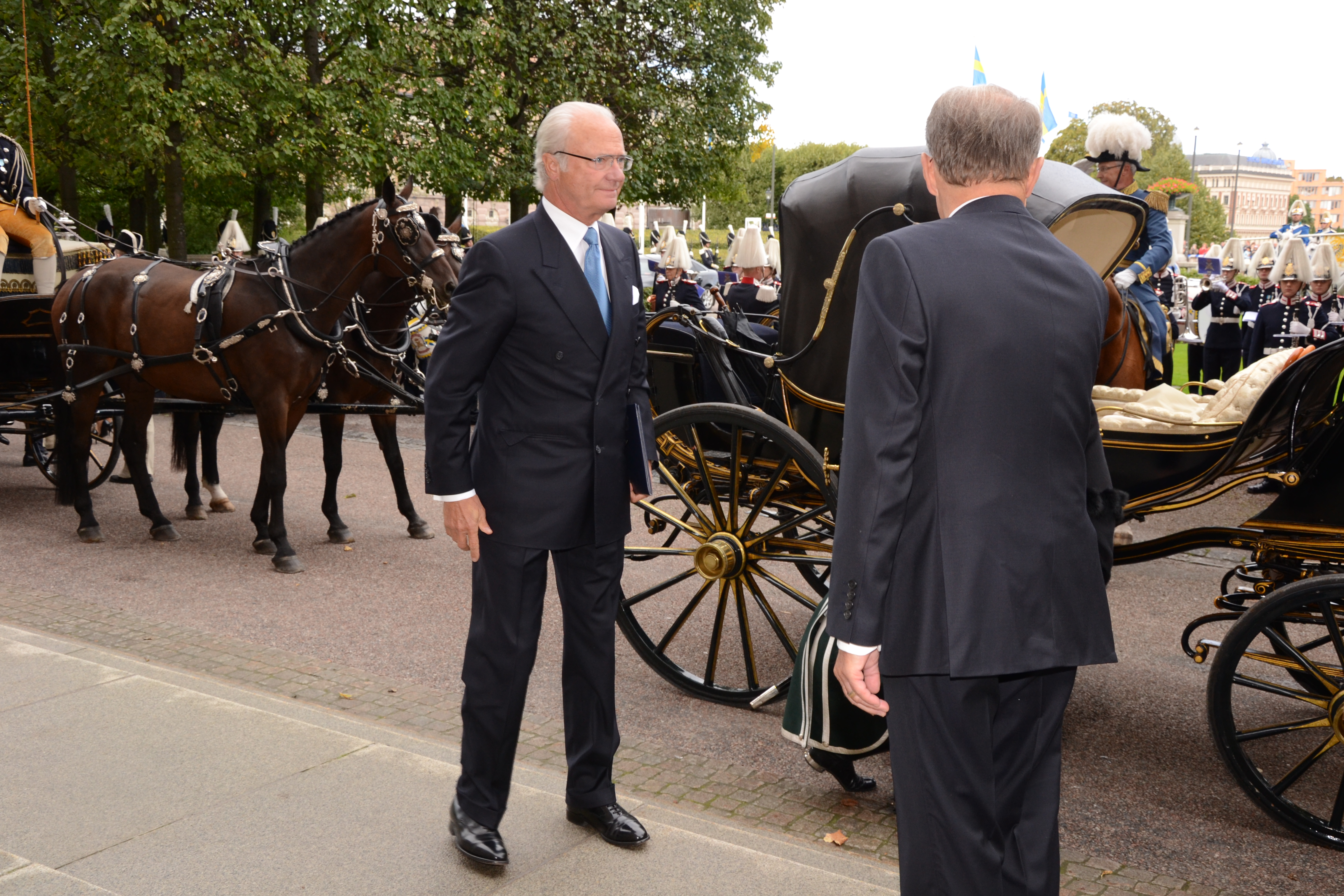 Opening of the swedish parliament, 15-sep-2011